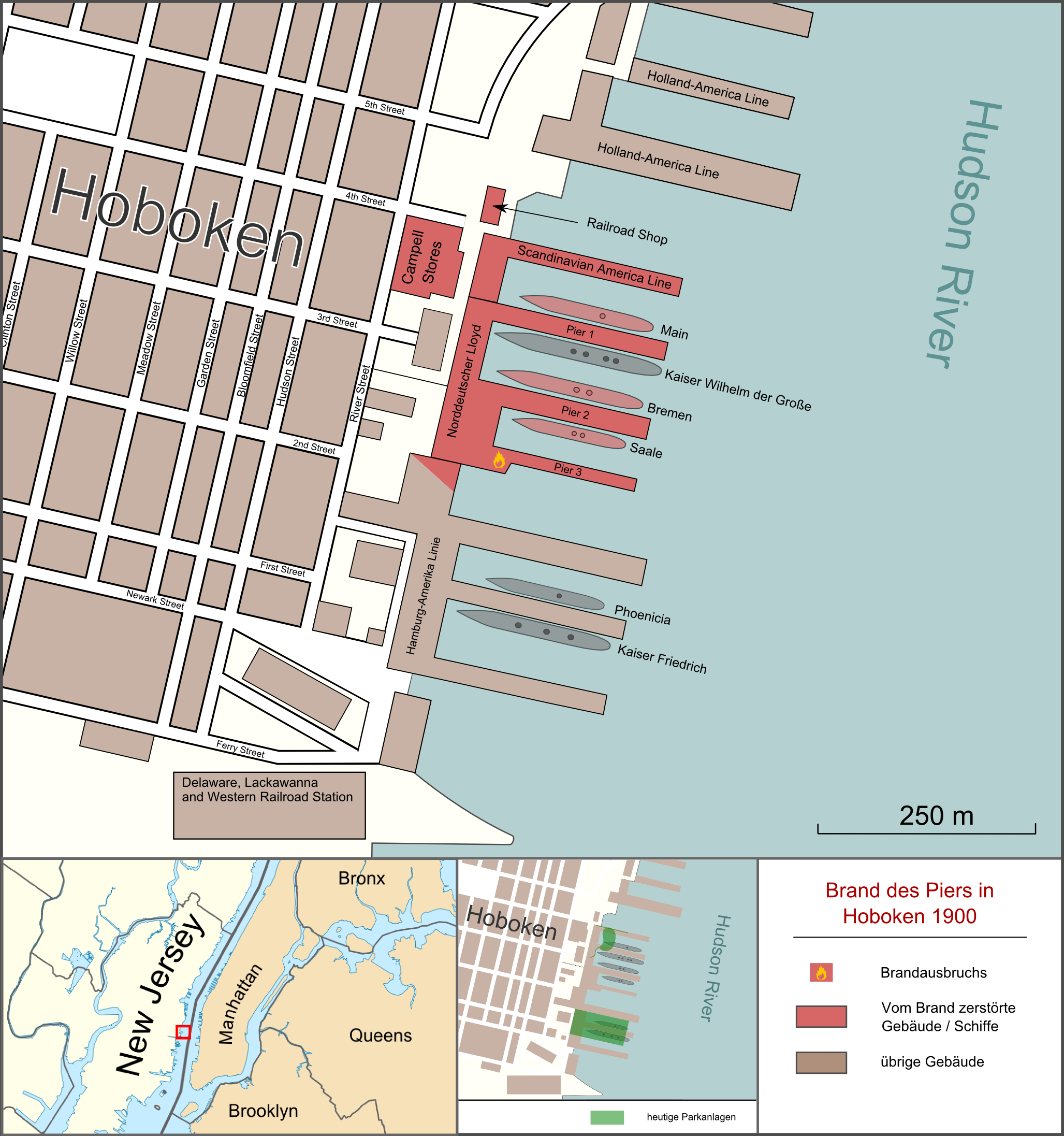 Map of the en:1900 Hoboken Docks Fire showing the location of the piers and ships at start of fire.